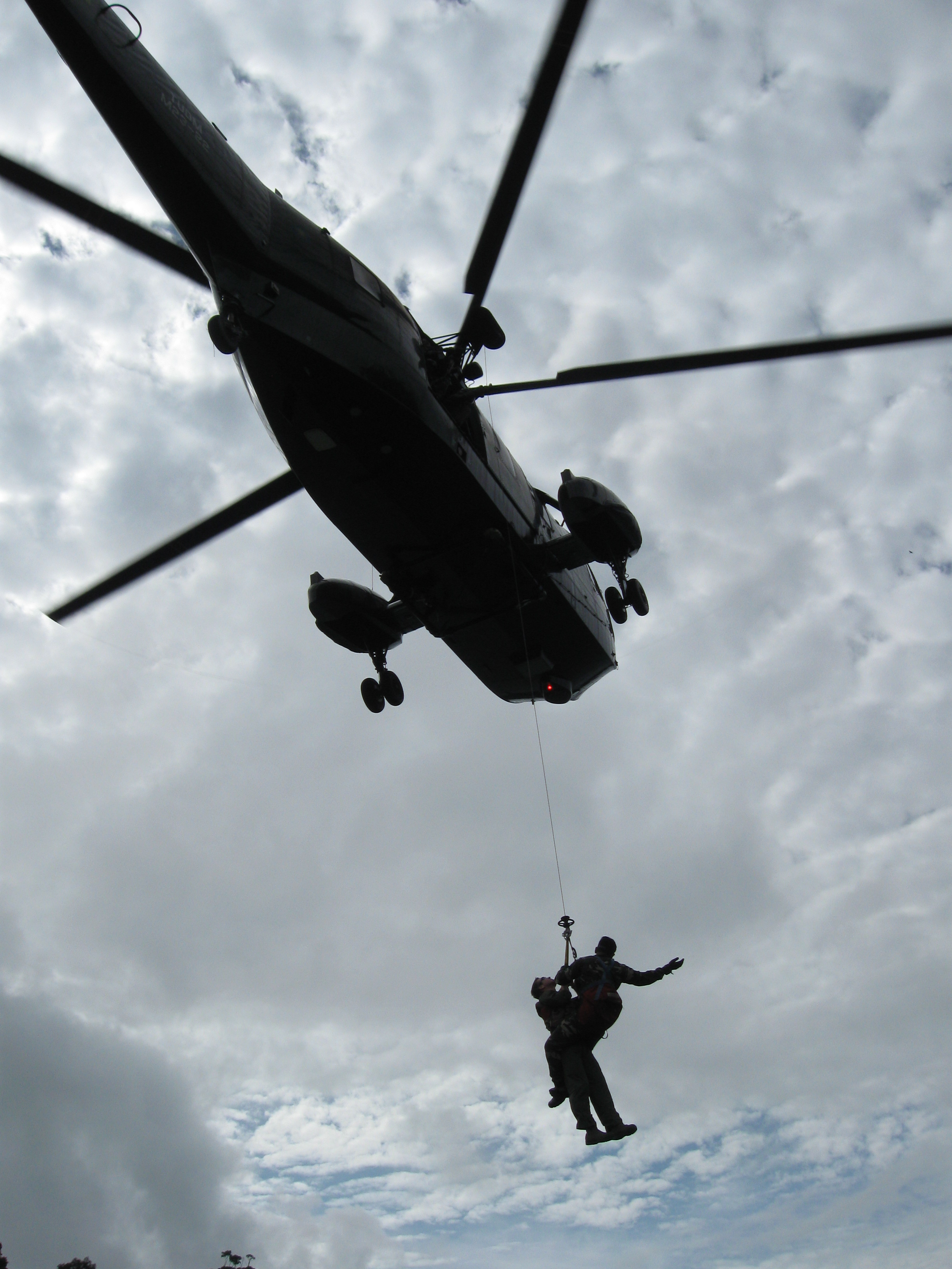 Royal Malaysian Air Force Cpl. Shahzaihar Zainol, a combat air rescueman, recovers Capt. Daniel Parrish, 67th Fighter Squadron F-15C pilot, as part of a combat search and rescue exercise during Cope Taufan 2012 at TUDM Butterworth, Malaysia, on April 11, 2012. Tech. Sgt. Robert Colliton, 18th Operations Support Squadron Survival, Evasion, Resistance and Escape specialist from Kadena Air Base, Japan, conducted a subject matter expert exchange with RMAF members during the exercise. U.S. Air Force and RMAF airmen also spent time in the jungle of northwest Malaysia refreshing their survival skills. Cope Taufan is a live-flying exercise designed around dissimilar basic fighter maneuvers and dissimilar air combat tactics training. (U.S. Air Force photo/Tech. Sgt. Robert Colliton)